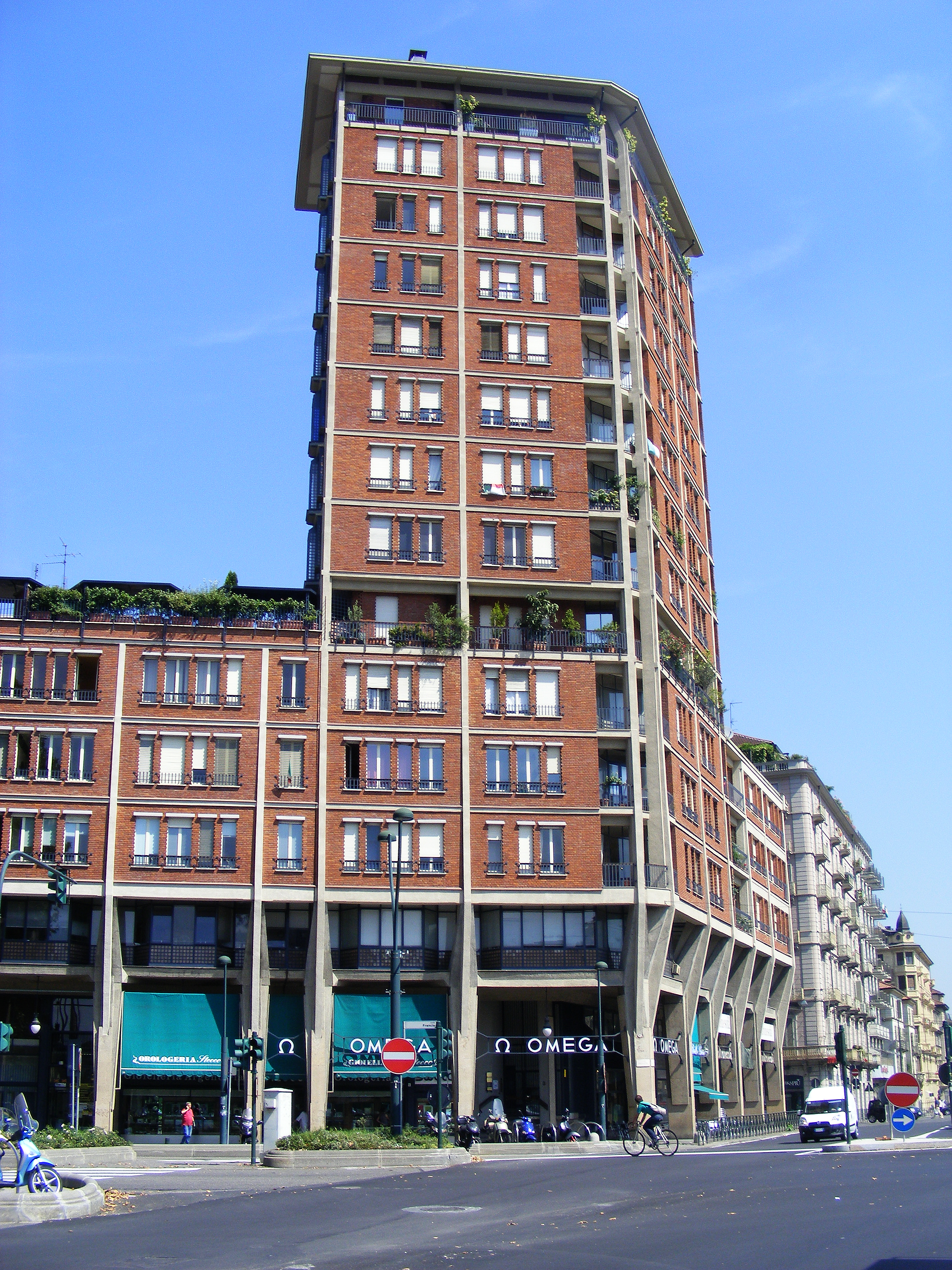 Residential building in Turin (c.so Francia / piazza Statuto) built in 1959, disigned by BBPR (Banfi, Barbiano di Belgiojoso, Peressutti, Rogers)